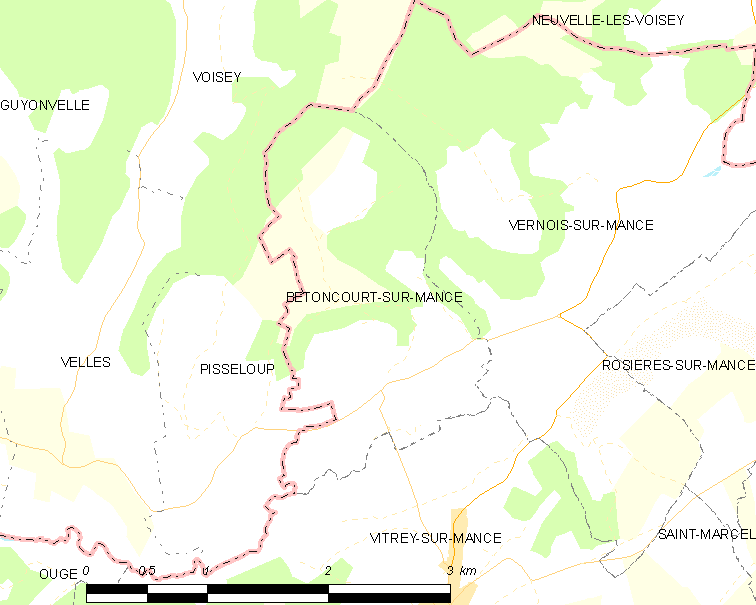 Map of French municipality